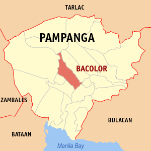 Map of Pampanga showing the location of Bacolor